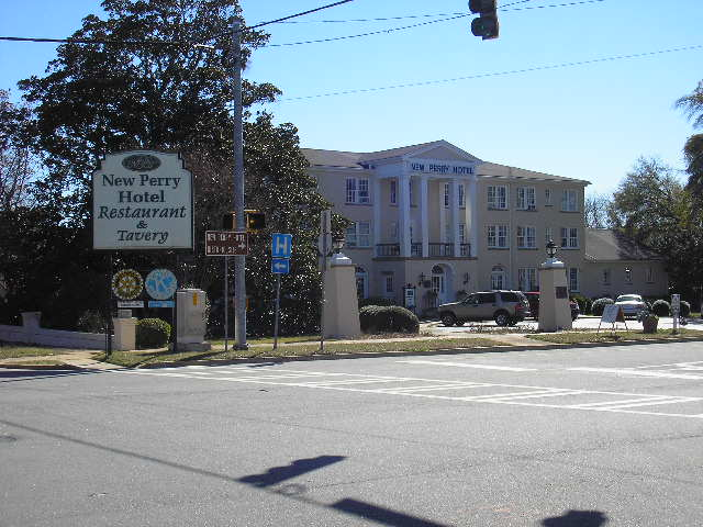 The New Perry Hotel in downtown Perry, GA